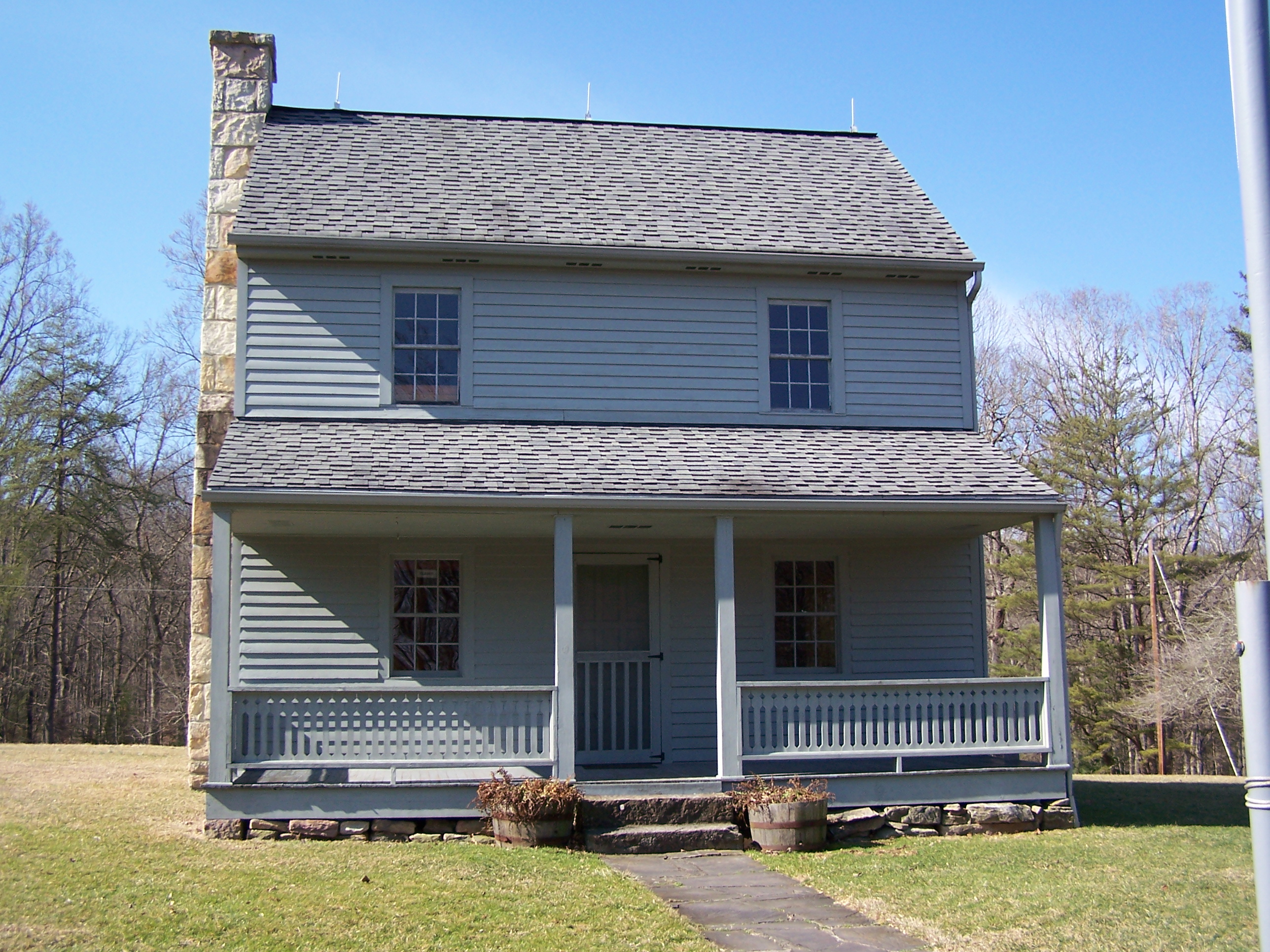 Patterson House at Carnifex Ferry Battlefield State Park. Photo taken on February 24, en:2007 by Brian M. Powell.